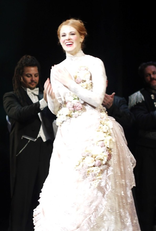 Teal Wicks stars as Emma Carew in the new Jekyll & Hyde the Musical